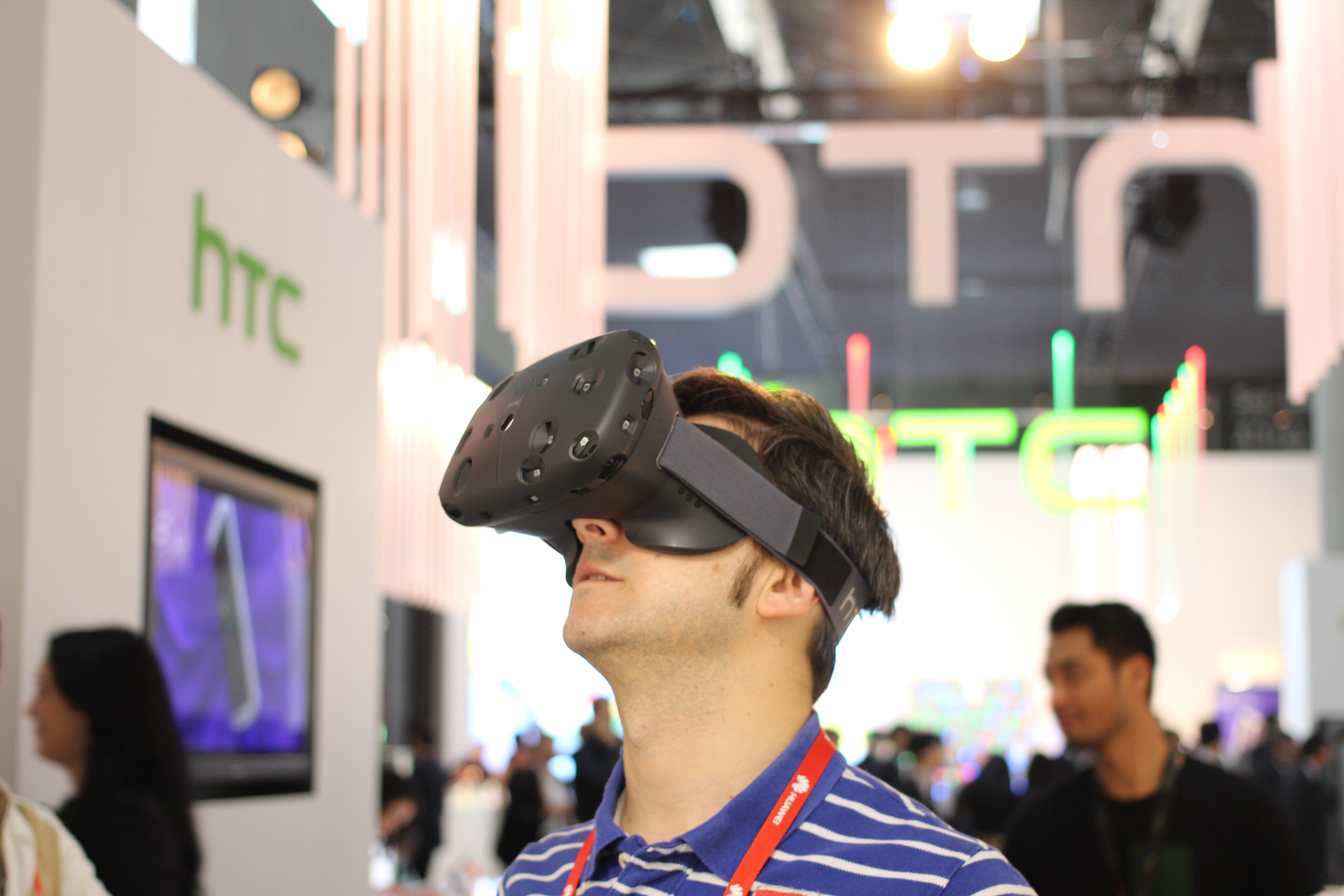 HTC Vive